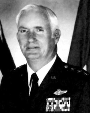 Lieutenant General Ellie G. "Buck" Schuler